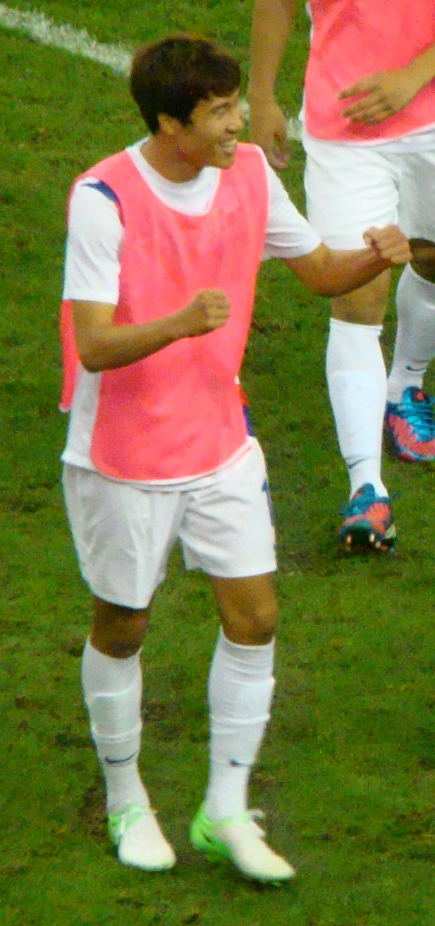 04/08/12 Great Britain v South Korea, Olympic Football, Millennium Stadium, Cardiff, Wales